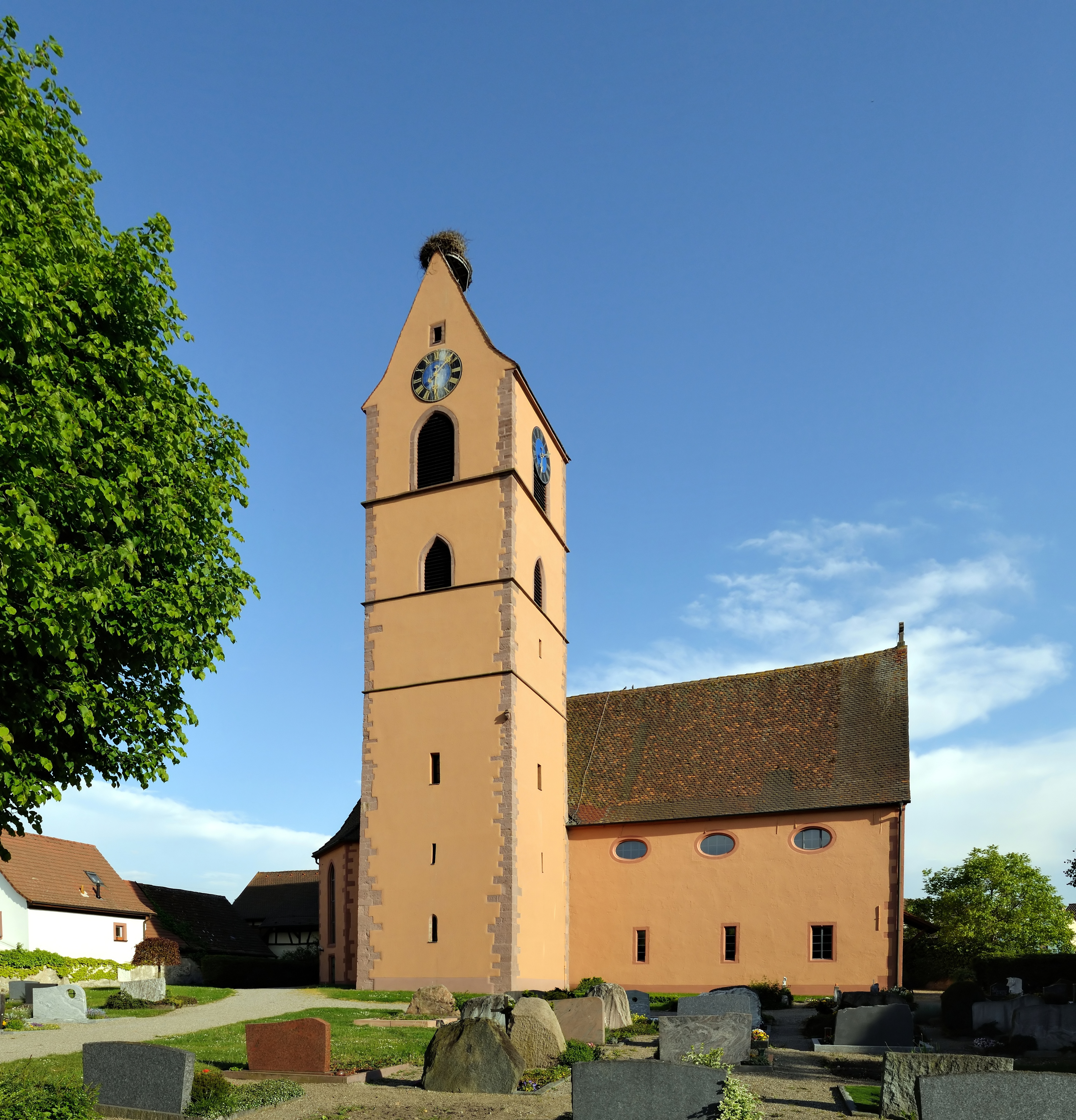 Kirchen: Protestant Church